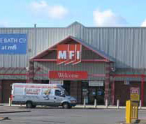 MFI retail store displaying older (late 80s / early 90s??) branding in the Mercia Business Park.